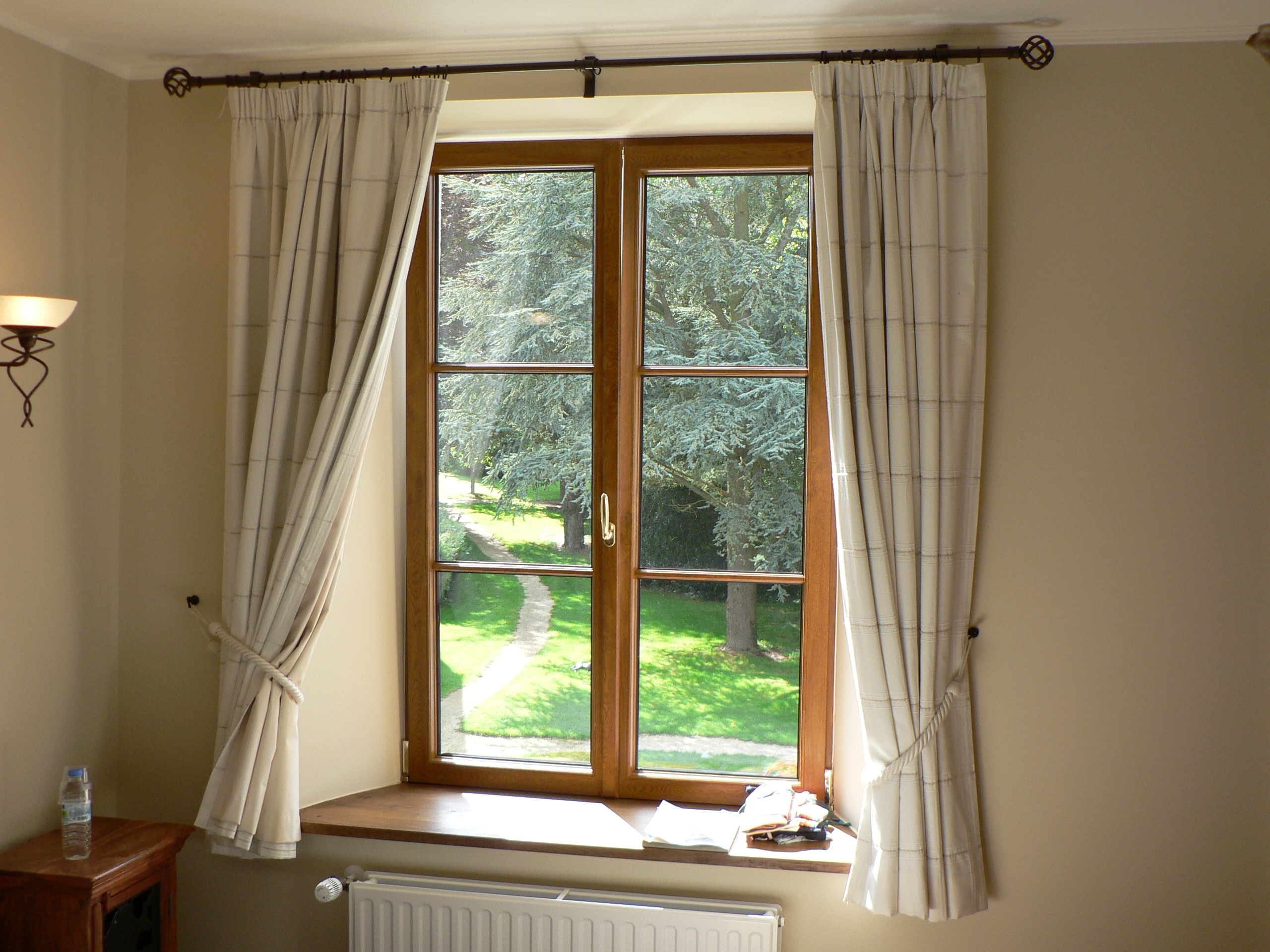 Bed & breakfast "Ma Résidence", suite "Colonies", Tellin.